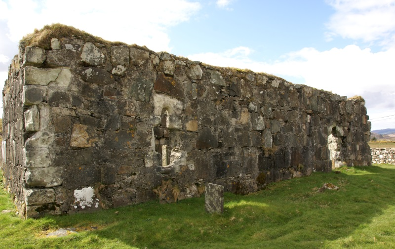 Pennygown Chapel, Mull, Argyll and Bute, Scotland.